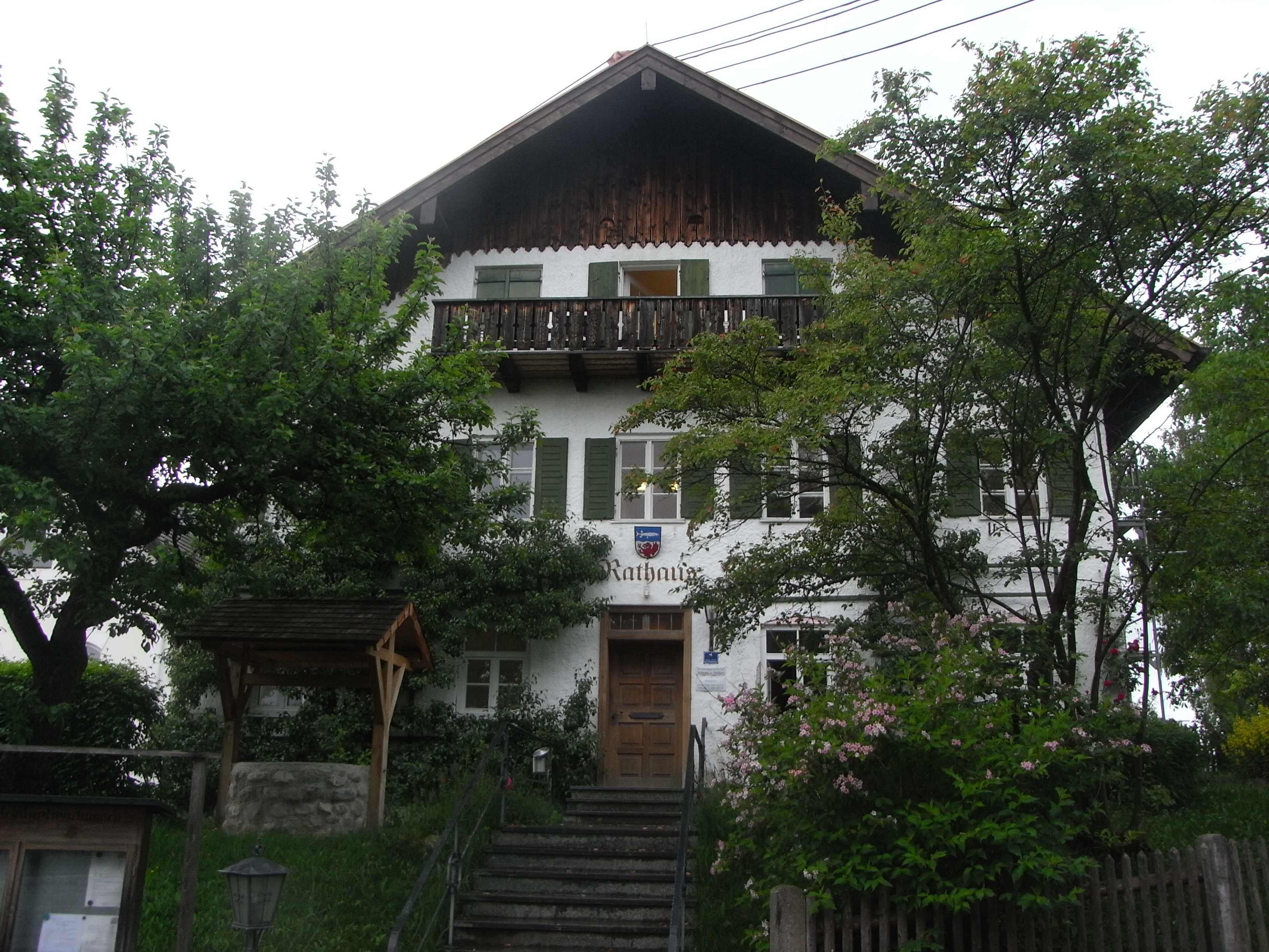 Town Hall of Seehausen am Staffelsee, Bavaria, Germany